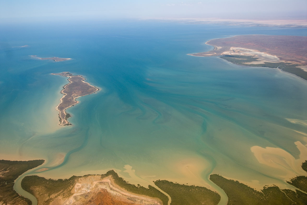 This is an aerial photograph of Gales Bay, a bay at the south end of Exmouth Gulf, Western Australia. The nearest foreground is Doole Island; behind it is Roberts Island; the further island is possibly Whitmore Island. The land on the right is the Sandalwood Peninsula. In the top right hand corner some of Giralia Bay can just be seen; across the top can be seen the continuing coastline of Western Australia.